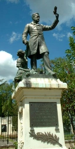 Pasteur Statue in Ales in Gard